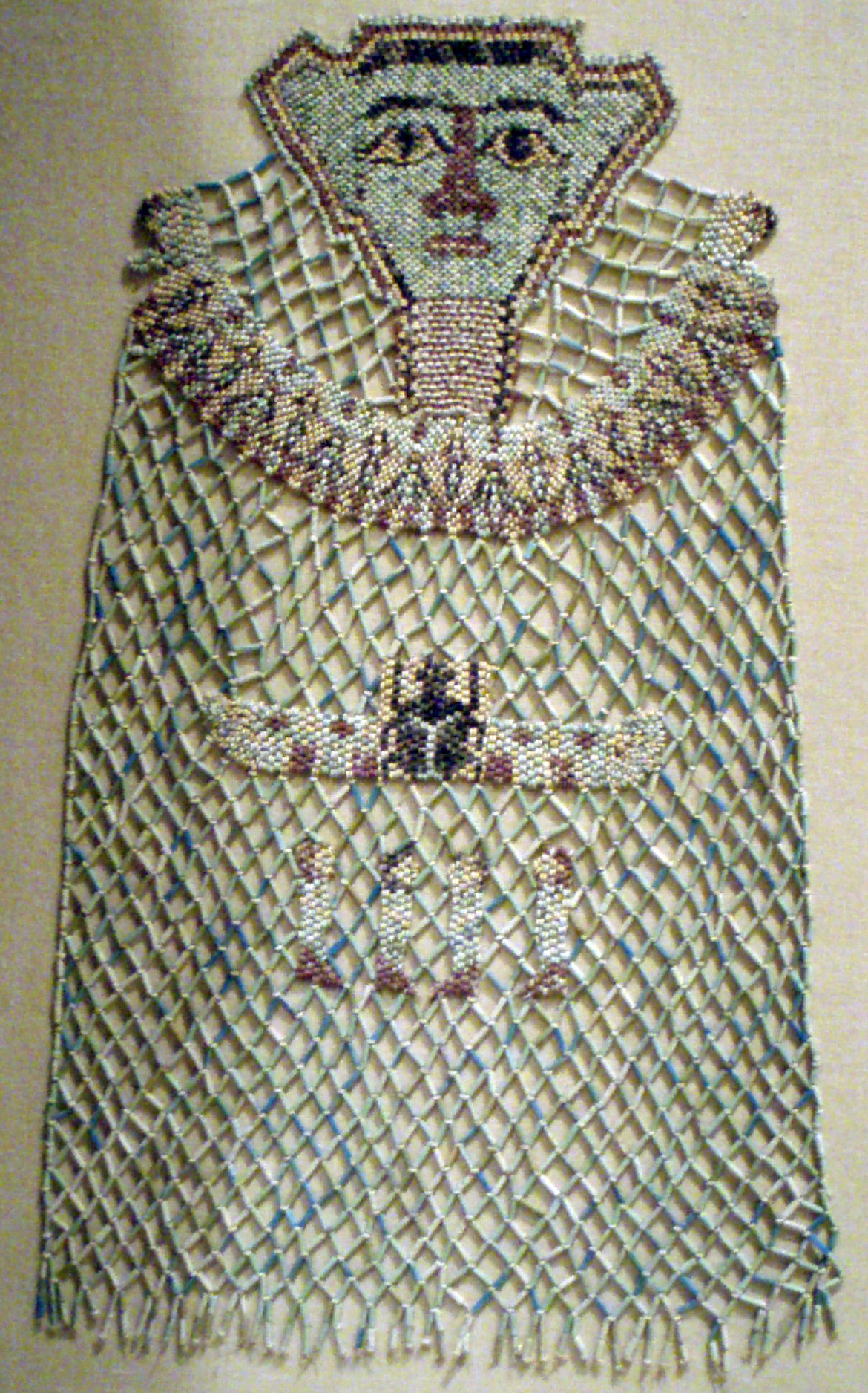 The beadwork net from a mummy, from the Ancient Egyptian wing of the Royal Ontario Museum.